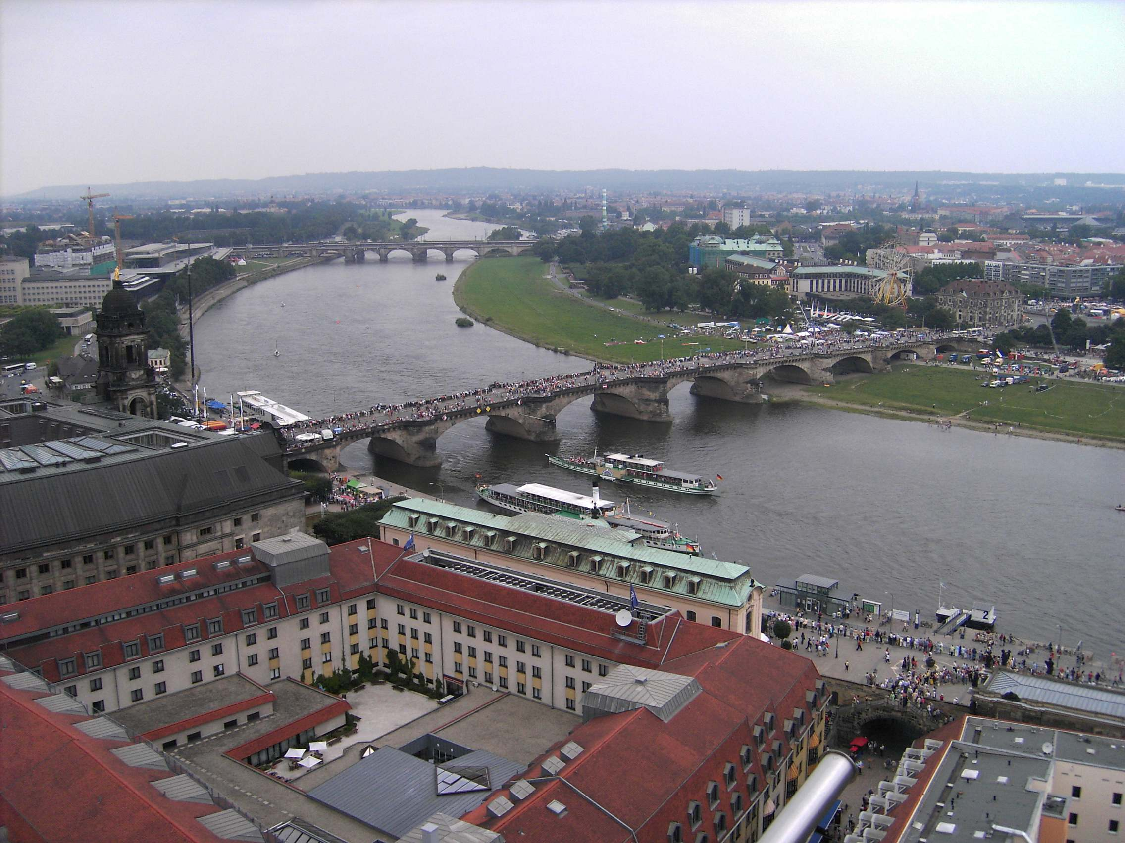 Dresden, View from Frauenkirche. Bridge across Elbe is closed for regular traffic. Due to City festival, it is only open for pedestrians.